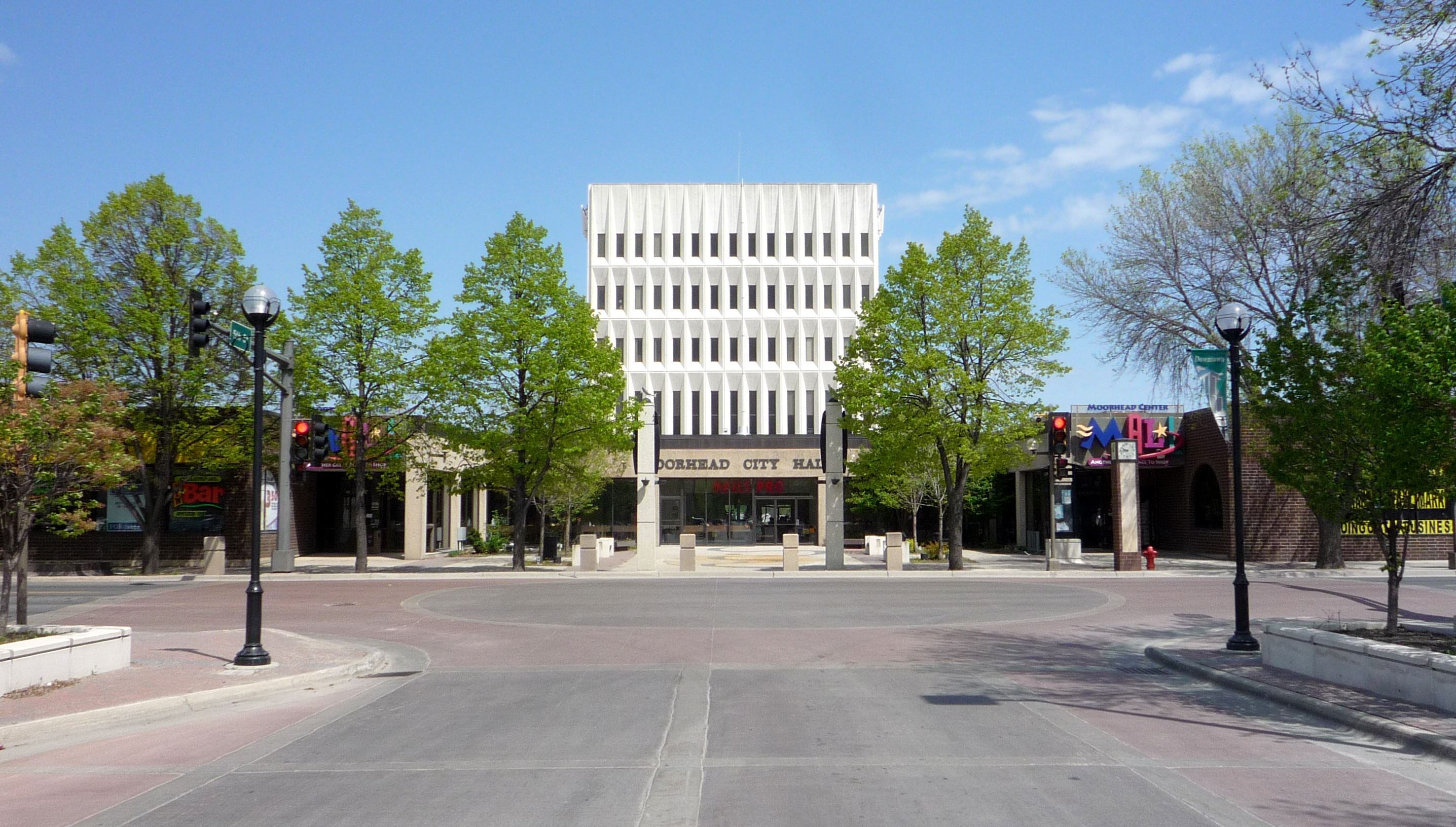 Moorhead City Hall, Moorhead, Minnesota, USA.